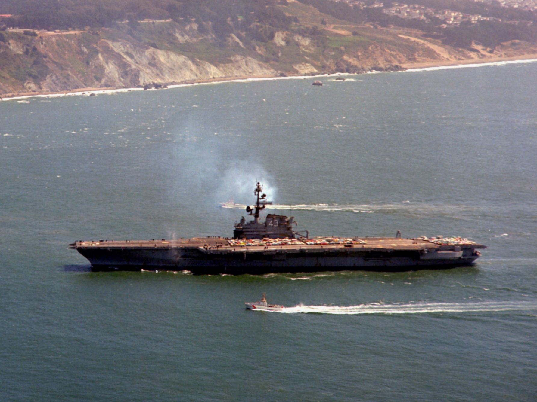 U.S. Coast Guard patrol boats escort the aircraft carrier USS Coral Sea (CVA-43) as the vessel enters San Francisco Bay following its return from an 11 months overhaul at the Puget Sound Navy Yard in Bremerton, Washington (USA). Later, on 15 July 1971, a fire damaged cables leading to and from the main communications spaces, and which also extensively damaged the pipe shop. Therefore, Coral Sea entered the San Francisco Naval Shipyard before beginning her deployment to Vietnam on 12 November 1971.